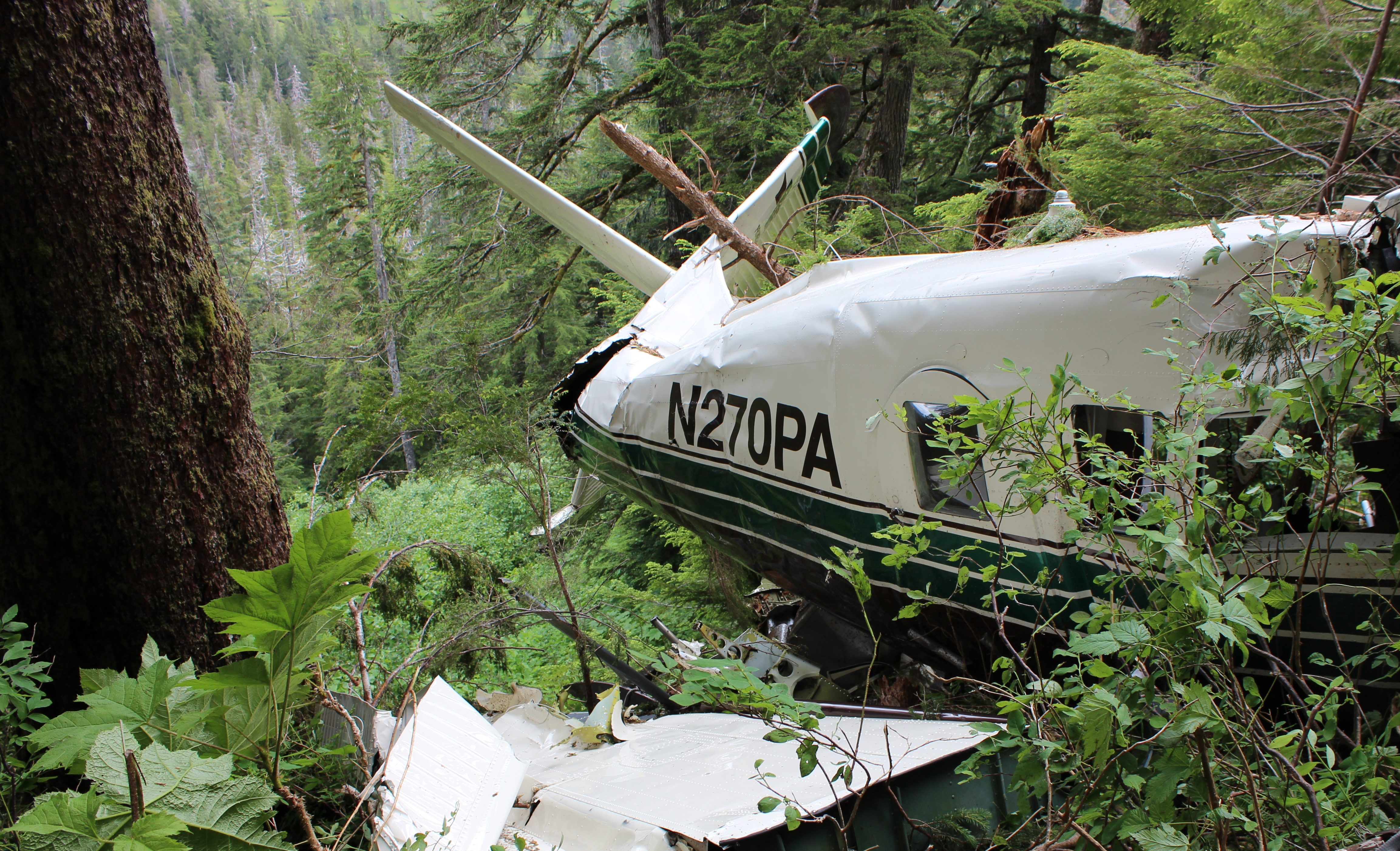 DeHavilland DHC-3T (Turbine Otter) that crashed on June 25, 2015 near Ketchikan, Alaska while on a sightseeing tour.